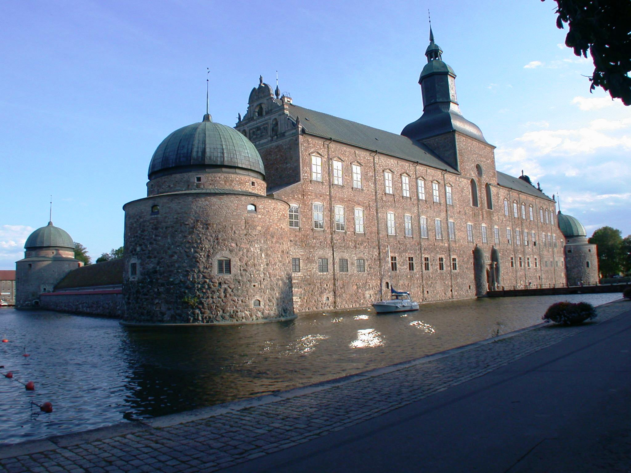 Vadstena castle, Vadstena, Sweden. Photo by Riggwelter, July 20, 2006.